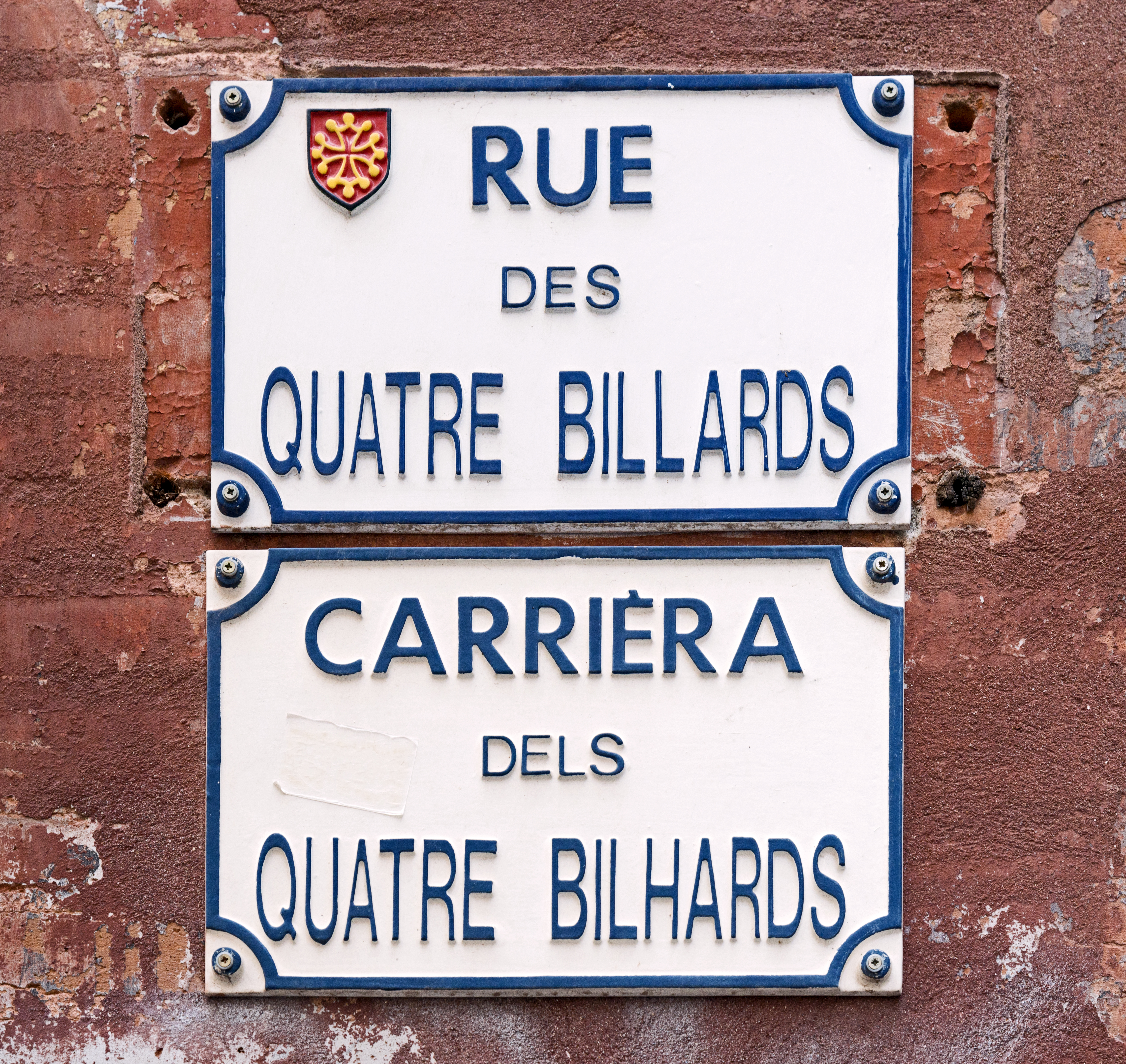 Rue des Quatre-Billards, in Toulouse - Street name sign. They have the particularity of being: in French and Occitan.